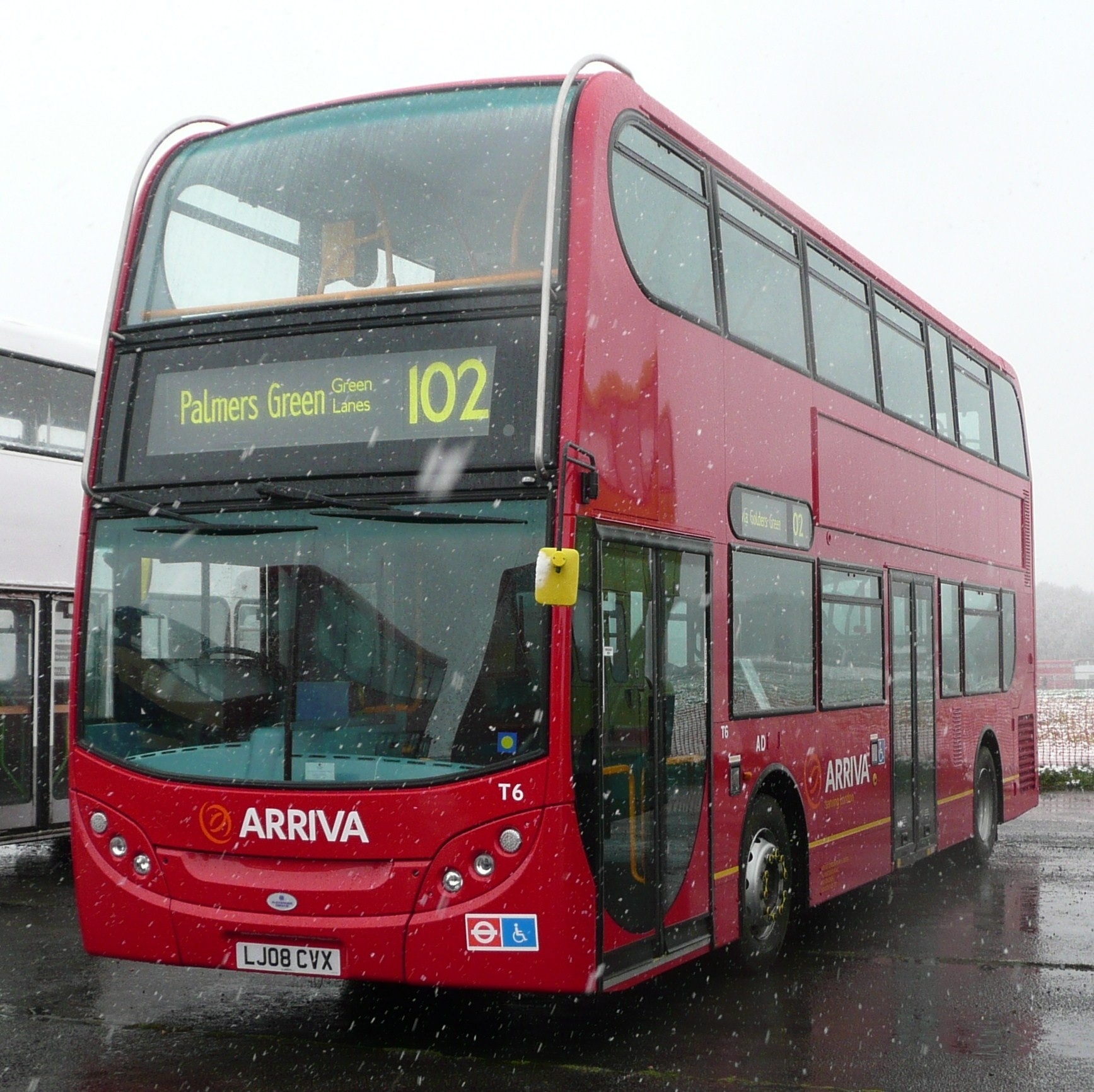 One of Arriva London's first Enviro 400